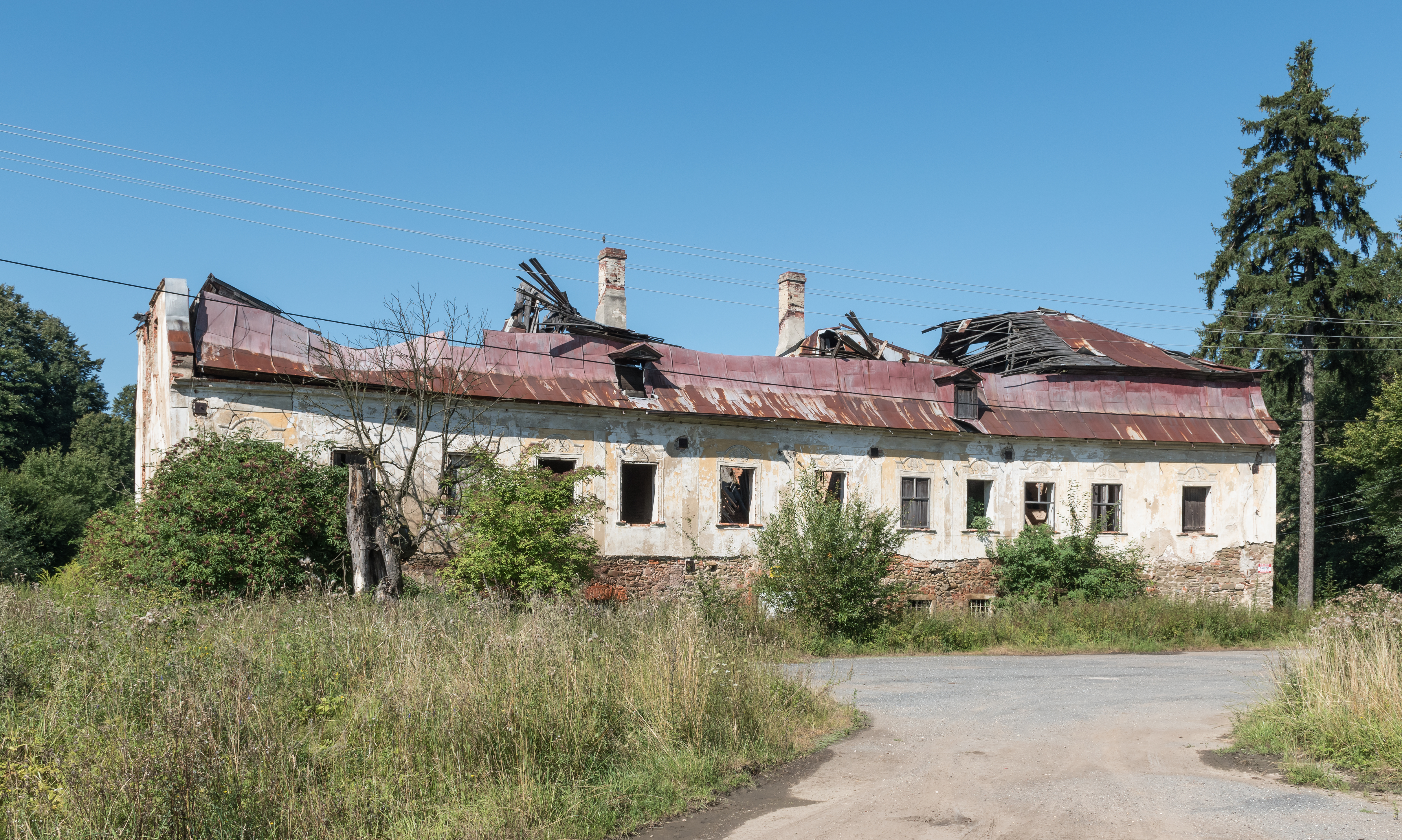 Manor in Idzików Wikidata has entry Q9213440 with data related to this item.